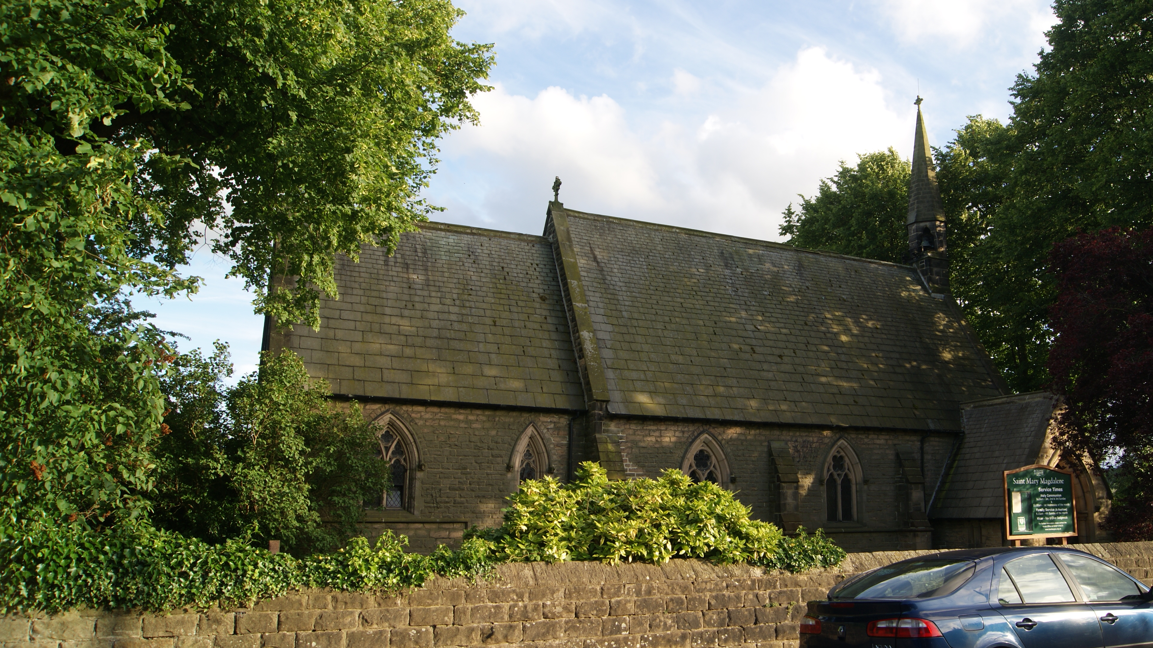 St. Mary Magdalene Church, East Keswick, West Yorkshire. Taken on the evening of Friday the 8th of July 2016.